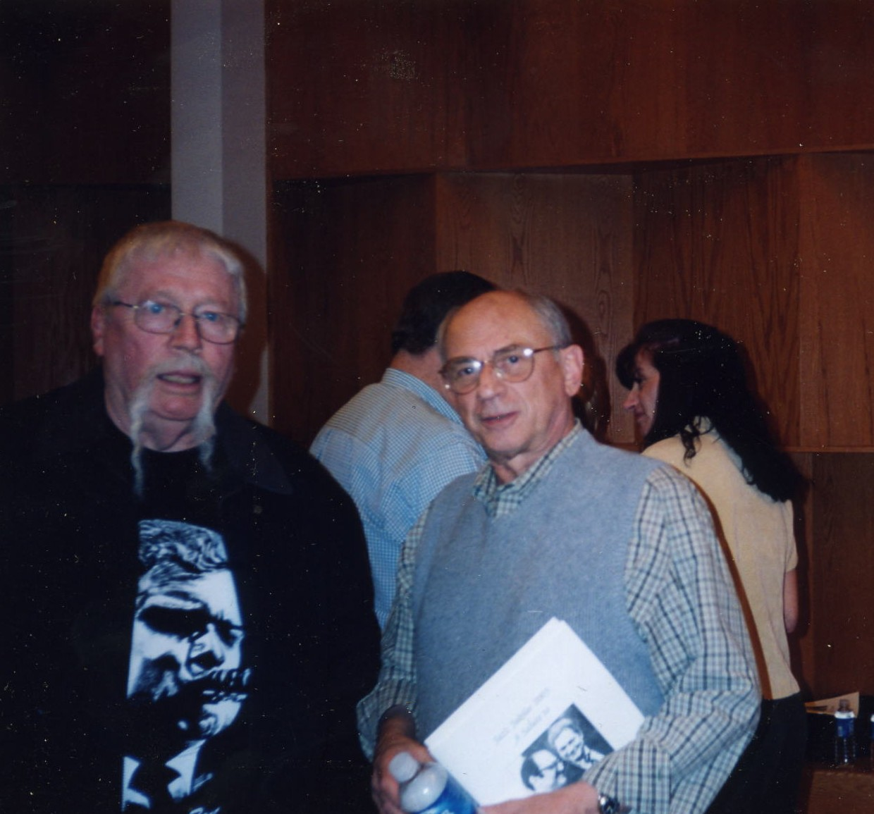 Dave Frishberg (right) at Al & Zoot's 80th birthday celebration East Stroudsberg Univ. Nov. 5,2005